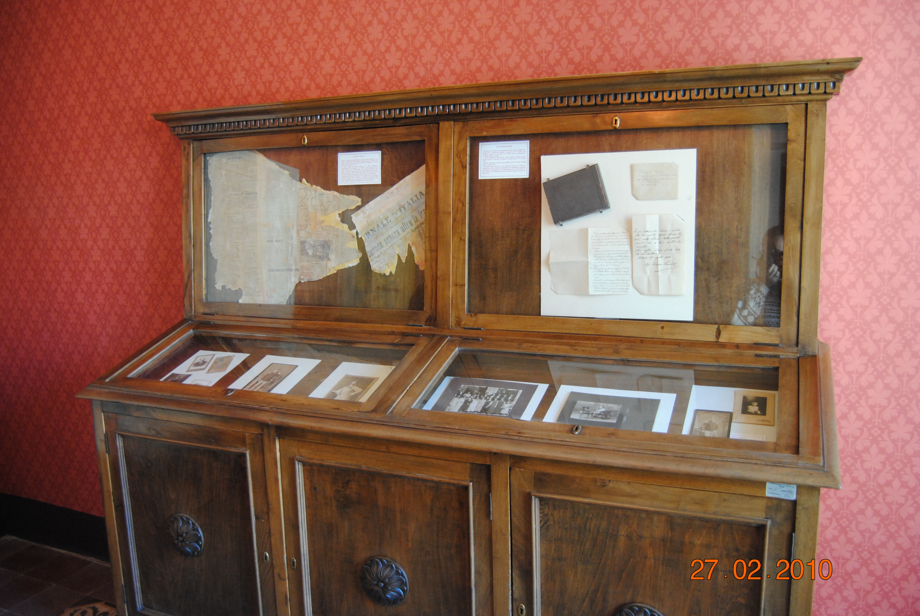 Liberti House